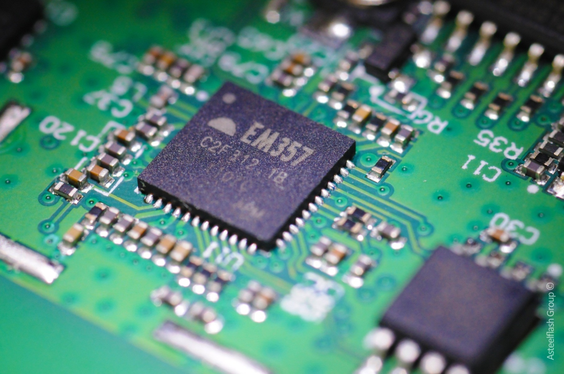 Printed circuit board assembly